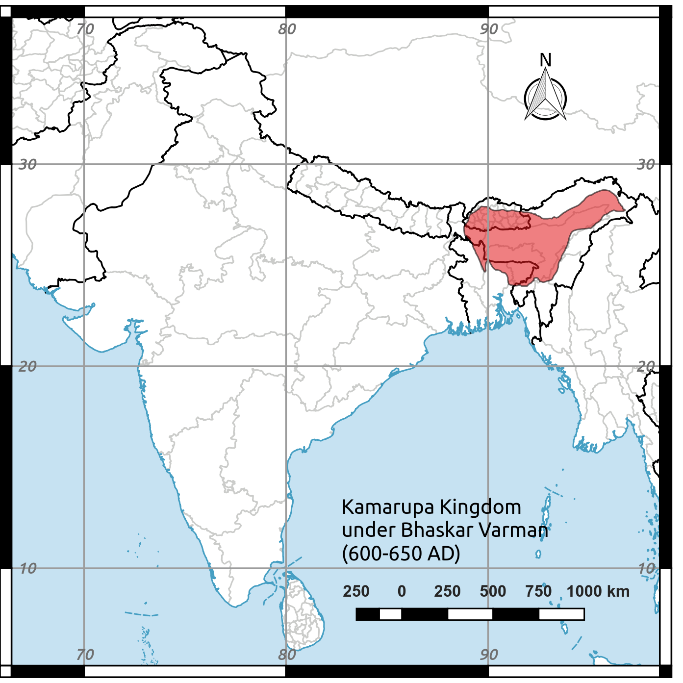 The Kamarupa kingdom of Bhaskar Varman (600–650 CE) based on The map is created with QGIS, using Natural Earth data. The map of Kamarupa is geo-referenced from the map created in Acharya, N N (1968) and published in the PhD thesis of Dutta (2008), page 282 (